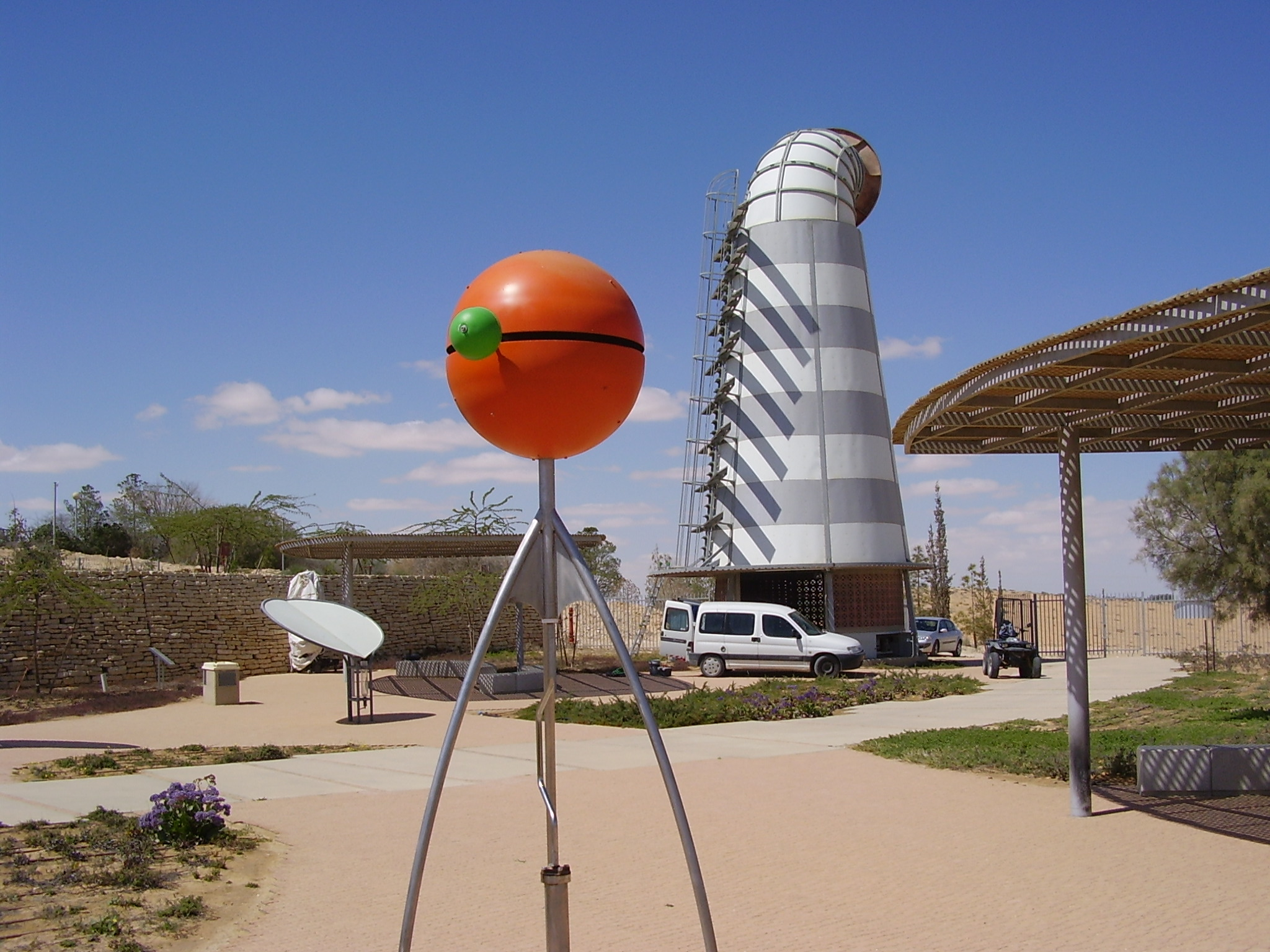 ecologic park in the youth village nitzana in the negev